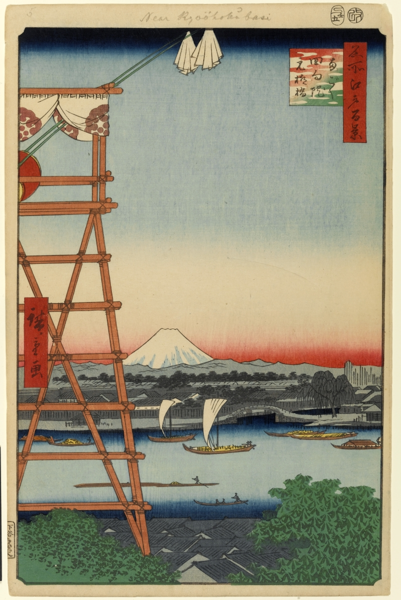 Part of the series One Hundred Famous Views of Edo, no. 005, part 1: Spring.